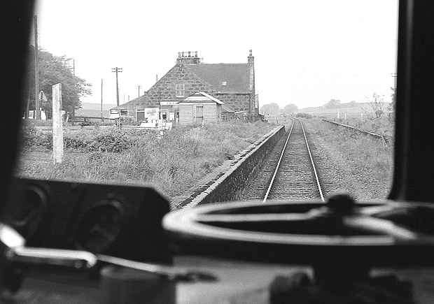 View from the driver's cab heading north approaching Logierieve in North east Scotland.